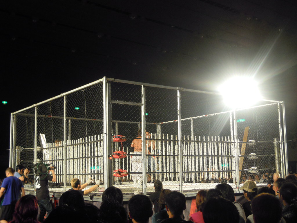 A Steel cage deathmatch with 200 fluorescent light tubes on May 4, 2010 - Ryuji Ito vs. Yuko Miyamoto - BJW Deathmatch Heavyweight Championship - Big Japan Pro Wrestling - Yokohama Cultural Gymnasium BJW Death Match Heavyweight Title Fluorescent Lighttubes Cage Death Match@BJW 15th Anniversary Show - CAGEMATCH.de